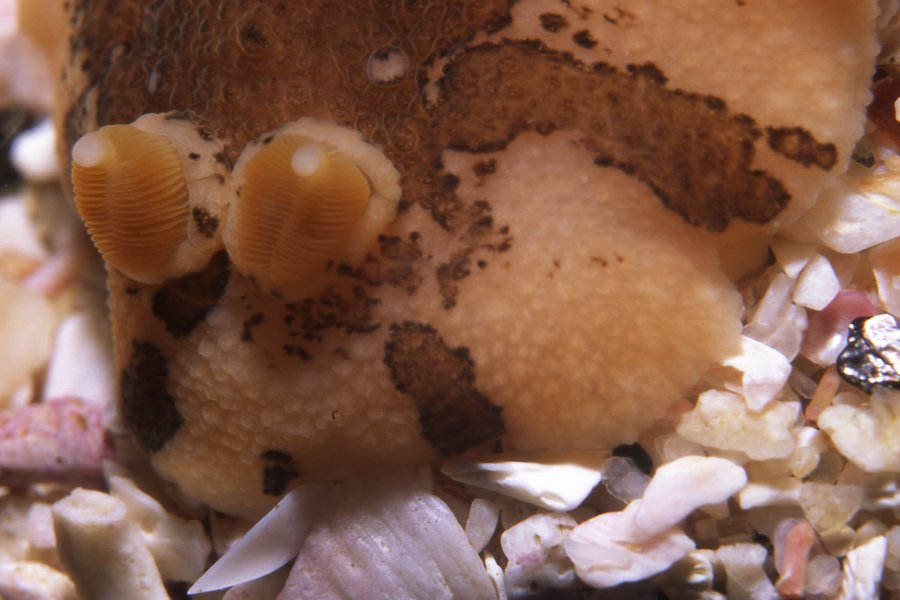 a closeup photo of the rhinophores of a striped Mandela's nudibranch, Mandelia mirocornata taken in 28 m of water at Whittle Rock in False Bay using a Nikonos V camera.